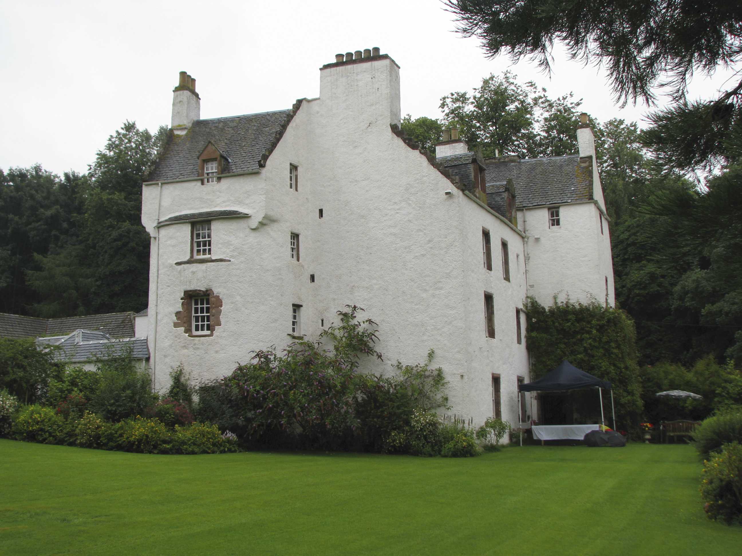 Newton Castle, Blairgowrie Sixteenth-century Z-plan tower house, residence of Cluny Macpherson, viewed from the southwest OS grid NO1716945273